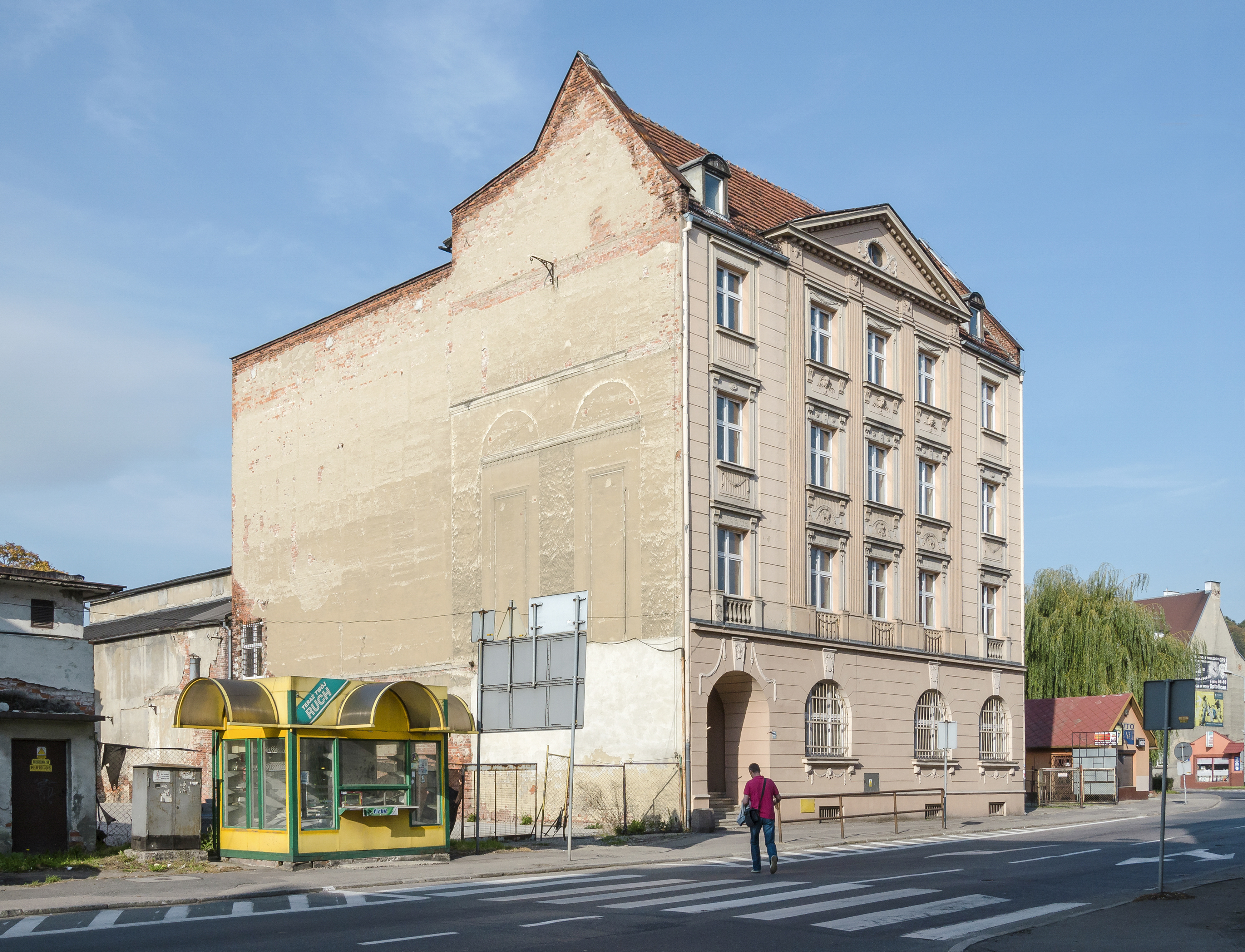 5 Połabska Street in Kłodzko